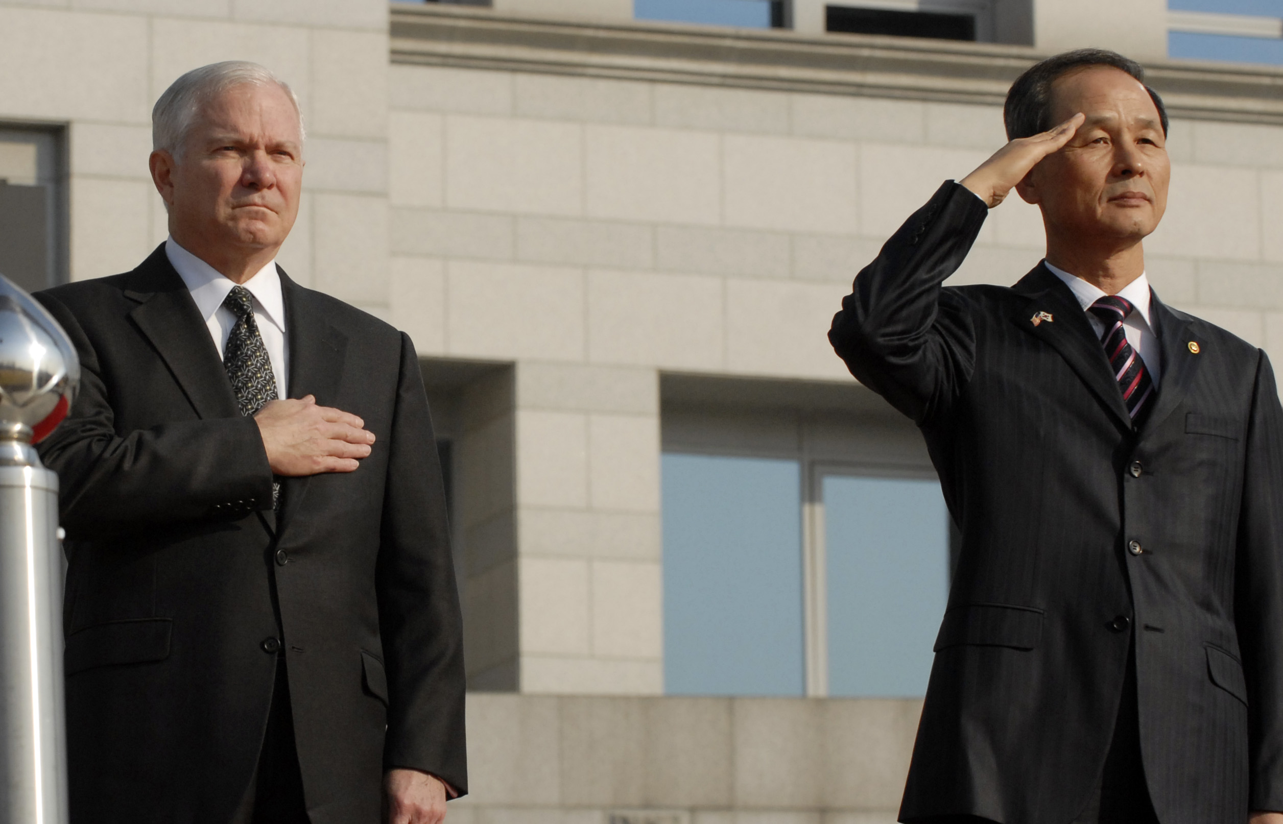 Defense Secretary Robert M. Gates and Korean Minister of Defense Kim render honors during the national anthem as part of an honor cordon ceremony at the Ministry of Defense Republic of Korea, Nov. 7, 2007.